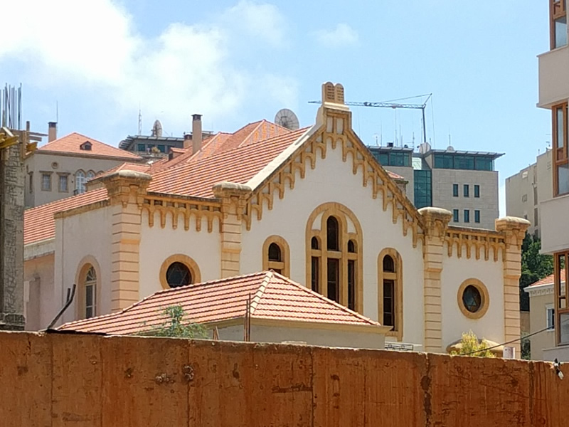 Recent image of the Maghen Abraham Synagogue, in the Wadi Abu Jamil neighborhood.